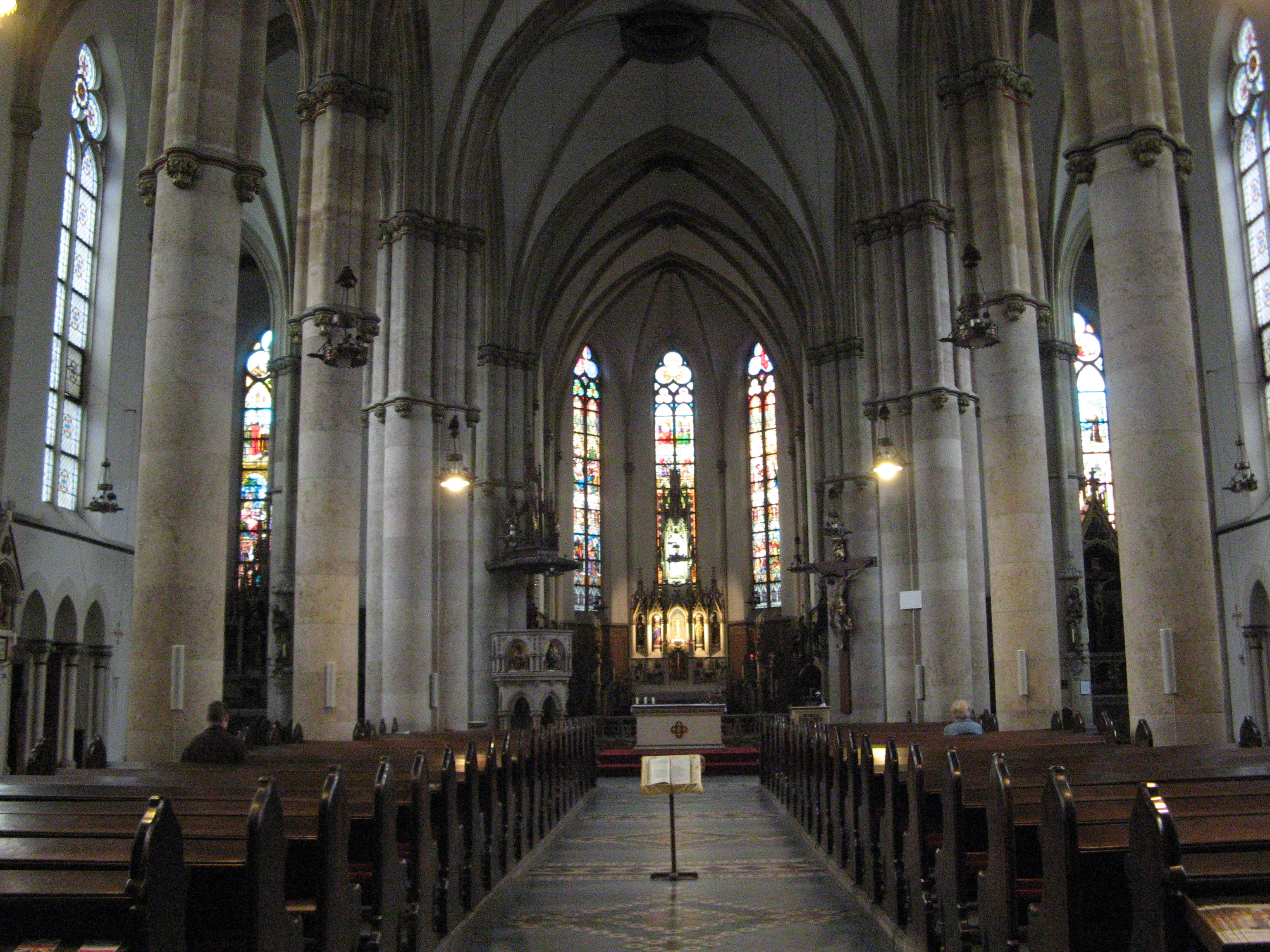 Church Lazaristenkirche Unbefleckte Empfängnis @ 7th district of Vienna. Nave